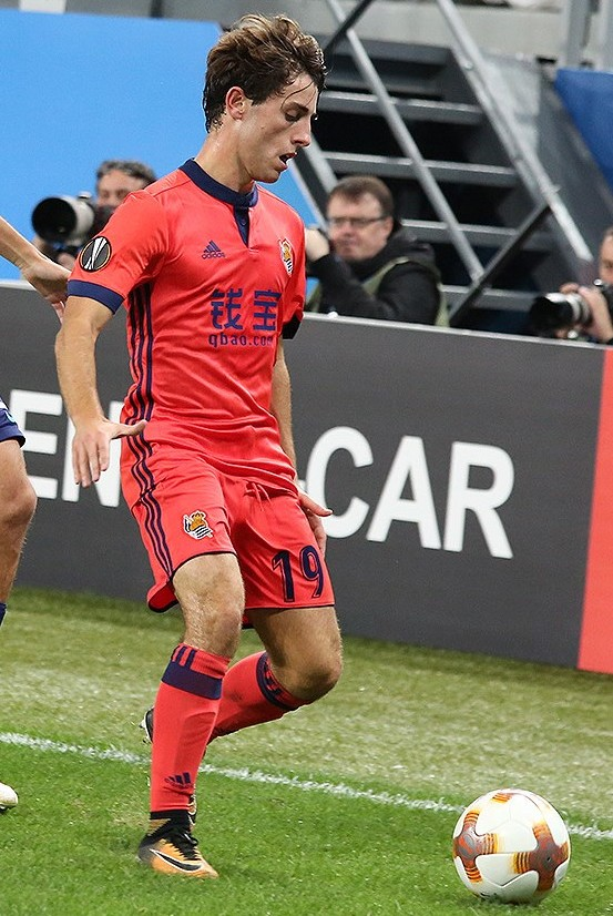 Álvaro Odriozola, Aleksandr Yerokhin